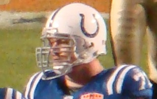 Indianapolis Colts offensive line huddles during Super Bowl XLIV in Miami, Fla.